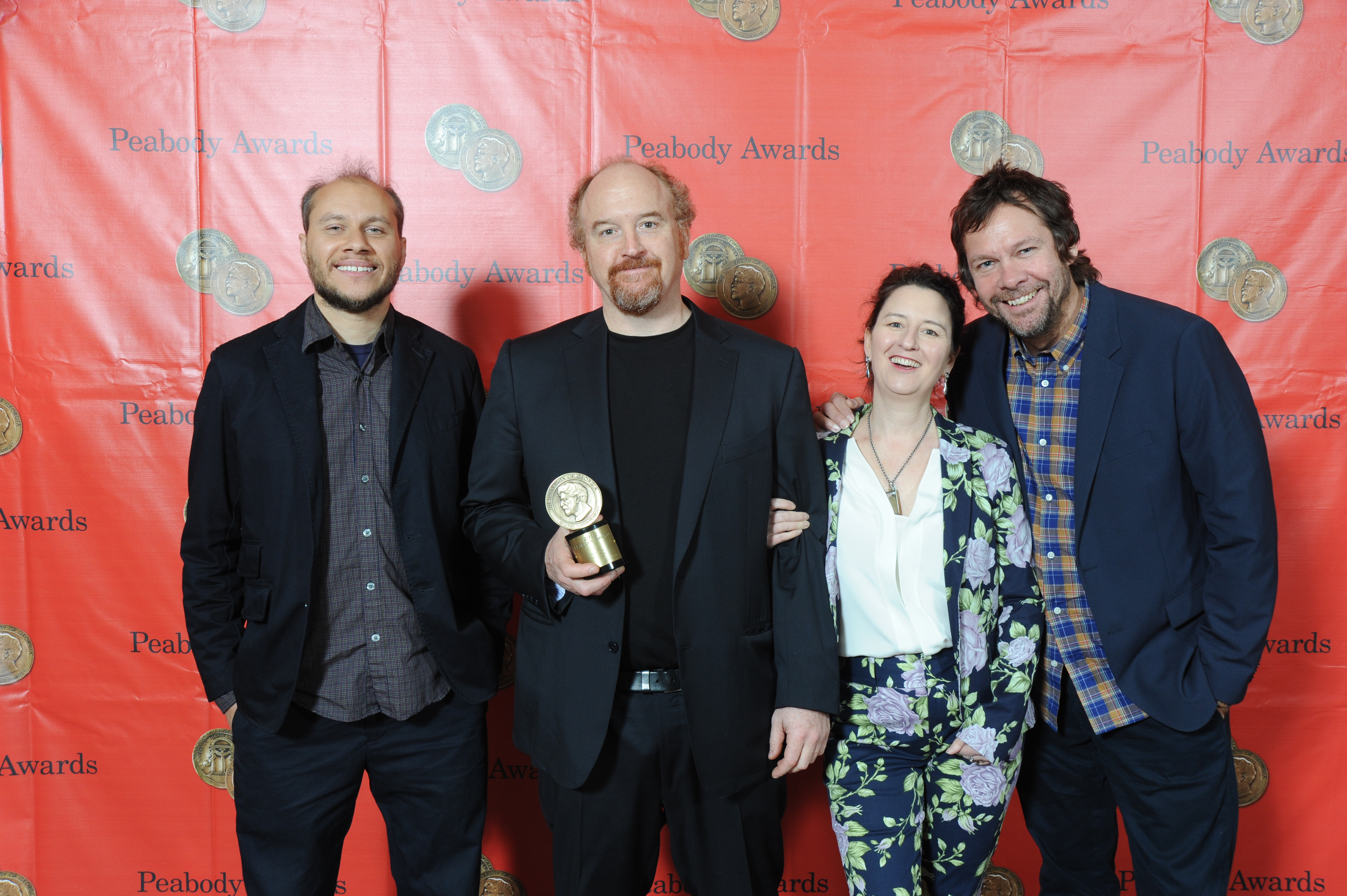 PHOTO CREDIT: ANDERS KRUSBERG / PEABODY AWARDS L to R: Vernon Chatman, Louis C.K, Blair Breard and Dave Becky, the crew of Louie, 72nd Annual Peabody Awards Luncheon Waldorf-Astoria Hotel May 20, 2013